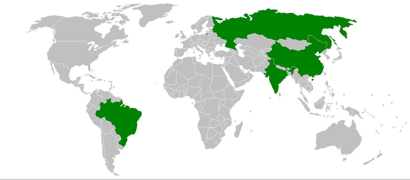 The four BRIC countries: Brazil, Russia, India and China